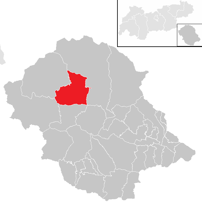 District Lienz